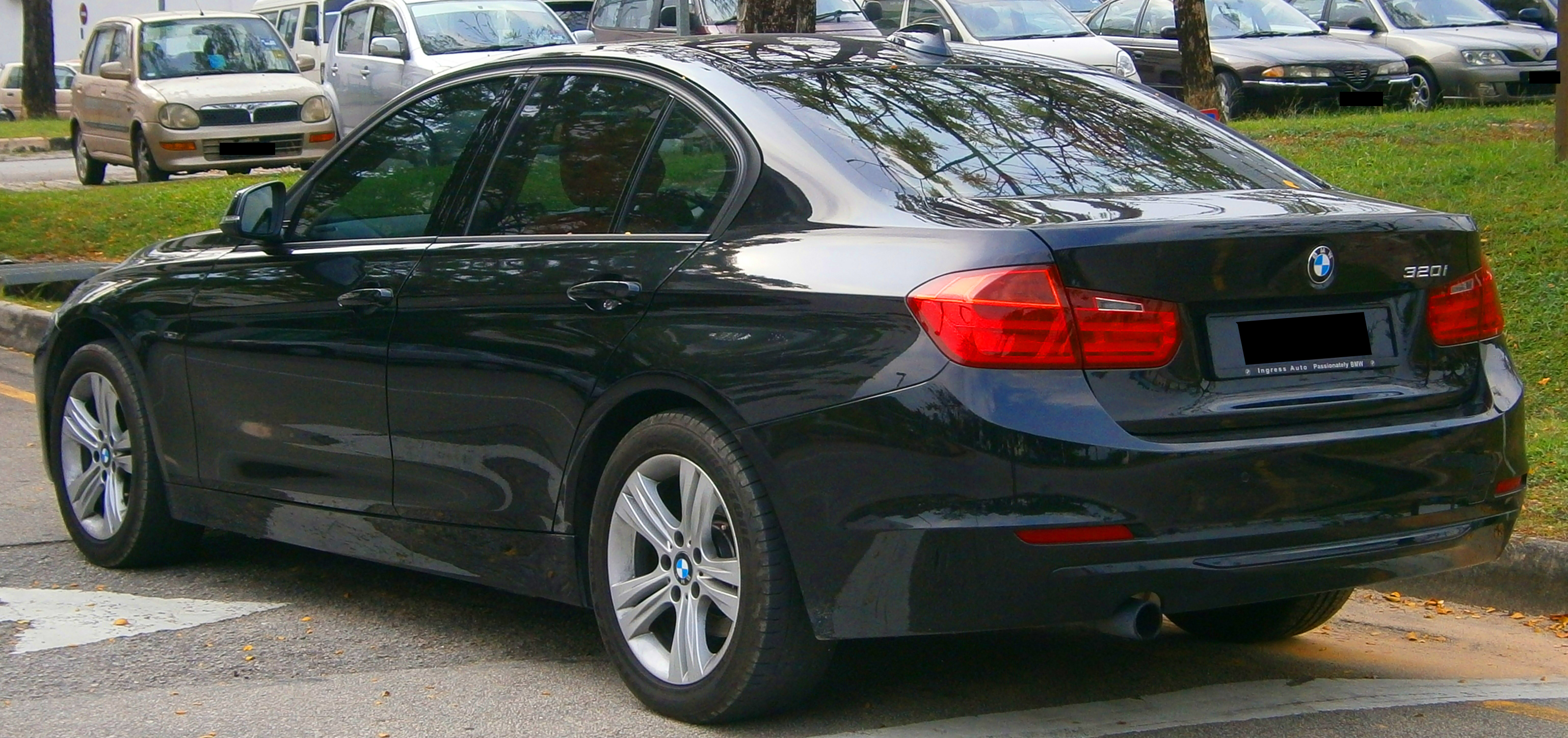 2013 BMW 320i Sport Line (3-Series, F30) in Cyberjaya, Malaysia. Colour : Black Sapphire Designed in Germany , Manufactured in Malaysia